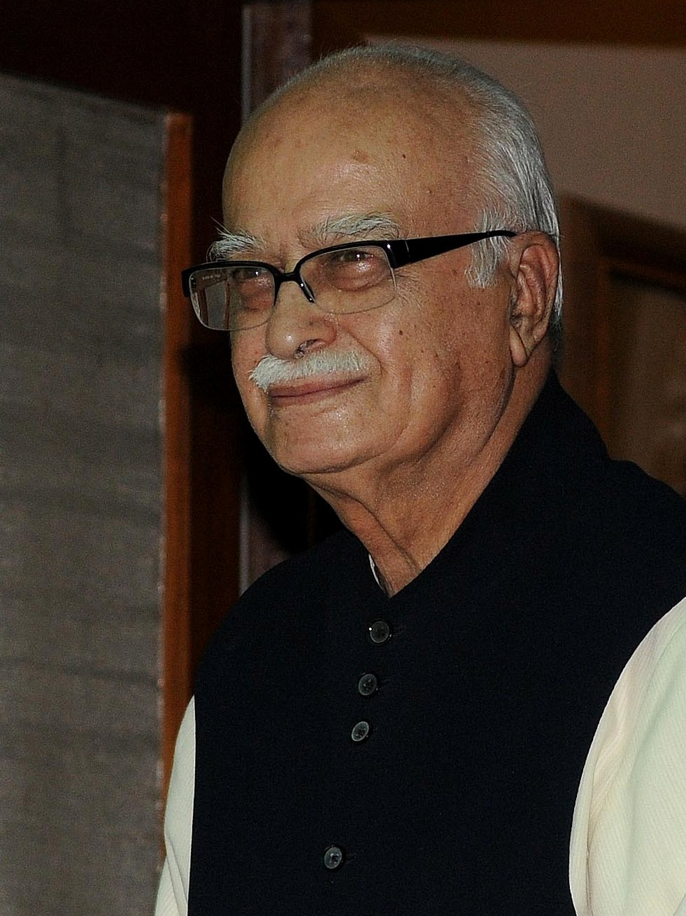 Cropped photograph of L K Advani with Hillary Clinton outside his residence.